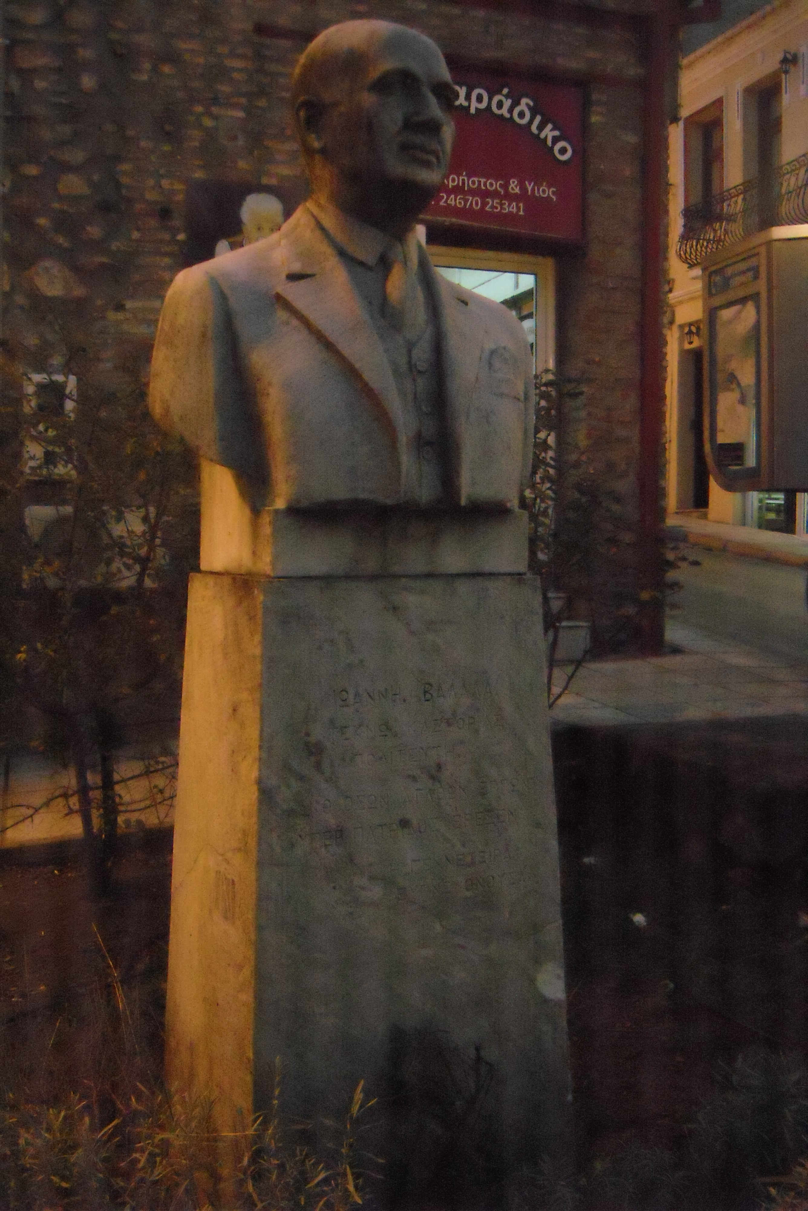 Bust of Ioannis Valalas